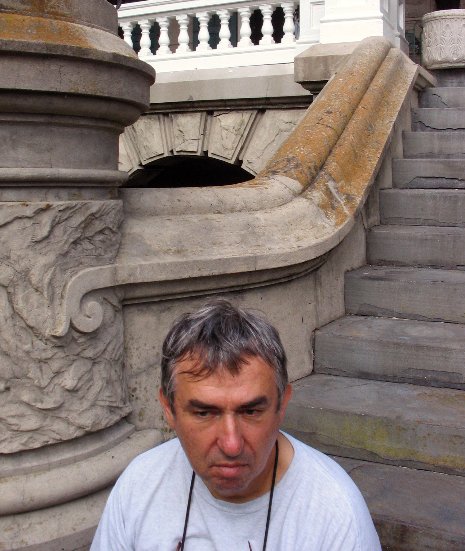 Portrait of Grant Mudford